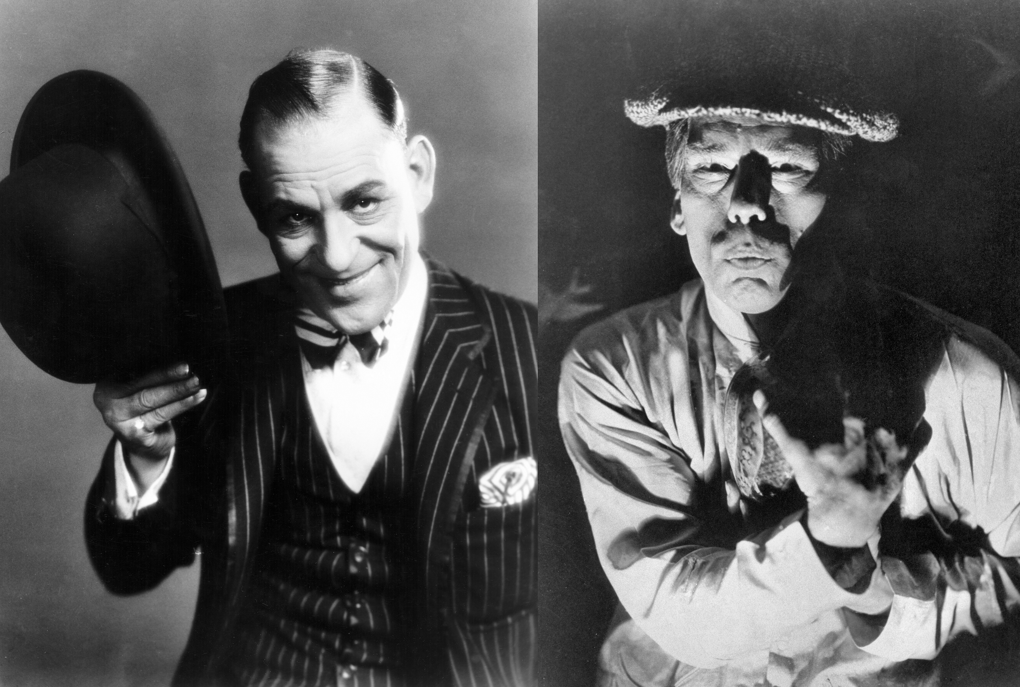 Lon Chaney as himself and as Chinese immigrant Yen Sin in the film Shadows (1922). This film was shot on location in Balboa. Chaney was known as "the man of a thousand faces." There are no known copyright restrictions on this image. All future uses of this photo should include the courtesy line, "Photo courtesy Orange County Archives." Comments are welcome after reading our Comment Policy. Photo collected during research for the Orange County Archives' 2011 exhibit, "On Location: Silent Film In Orange County."